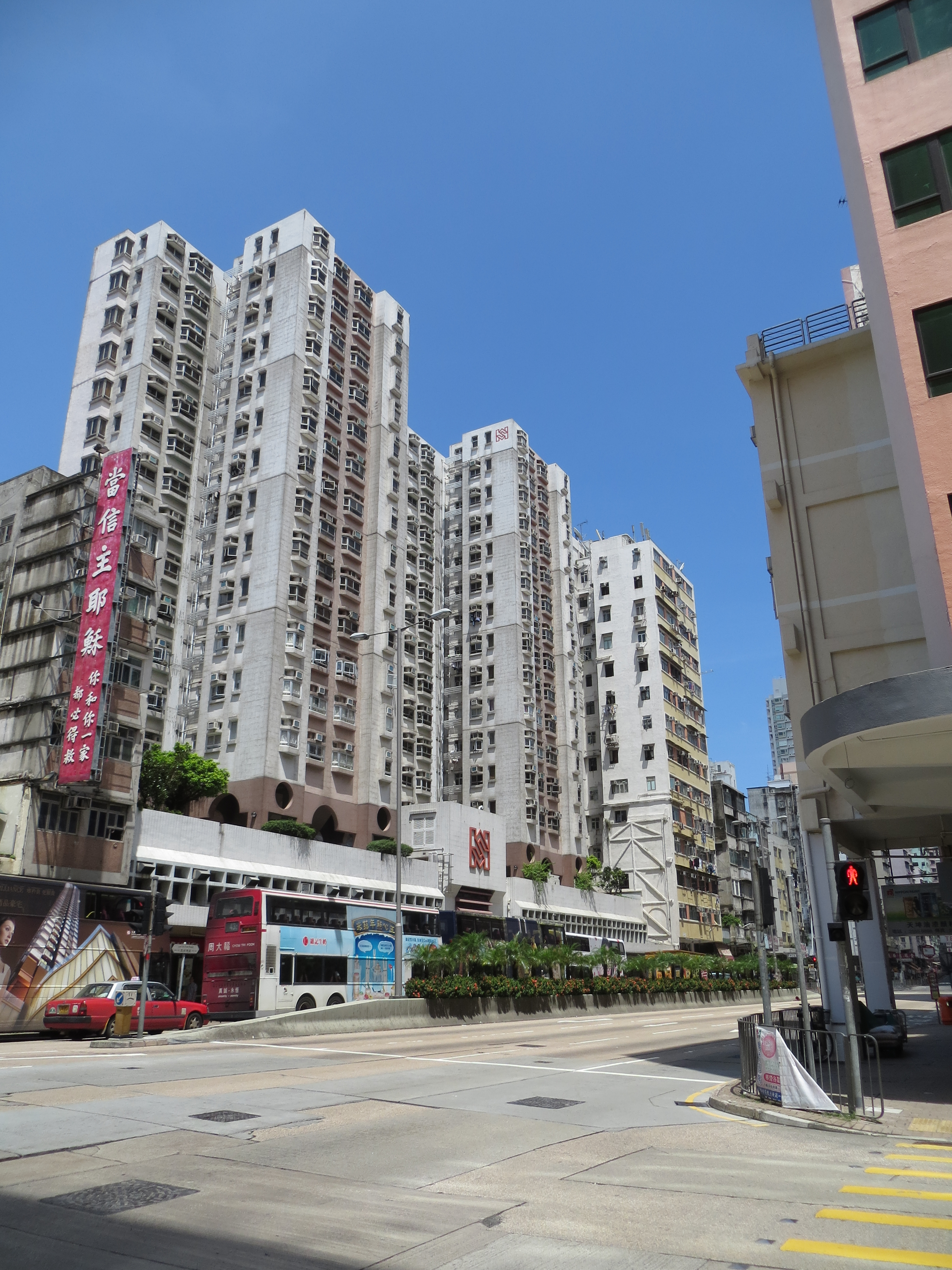 Lai Chi Kok Road near Maple Street, Sham Shui Po, Kowloon, Hong Kong.